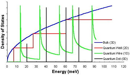 Examples of density of states in materials of various dimensions